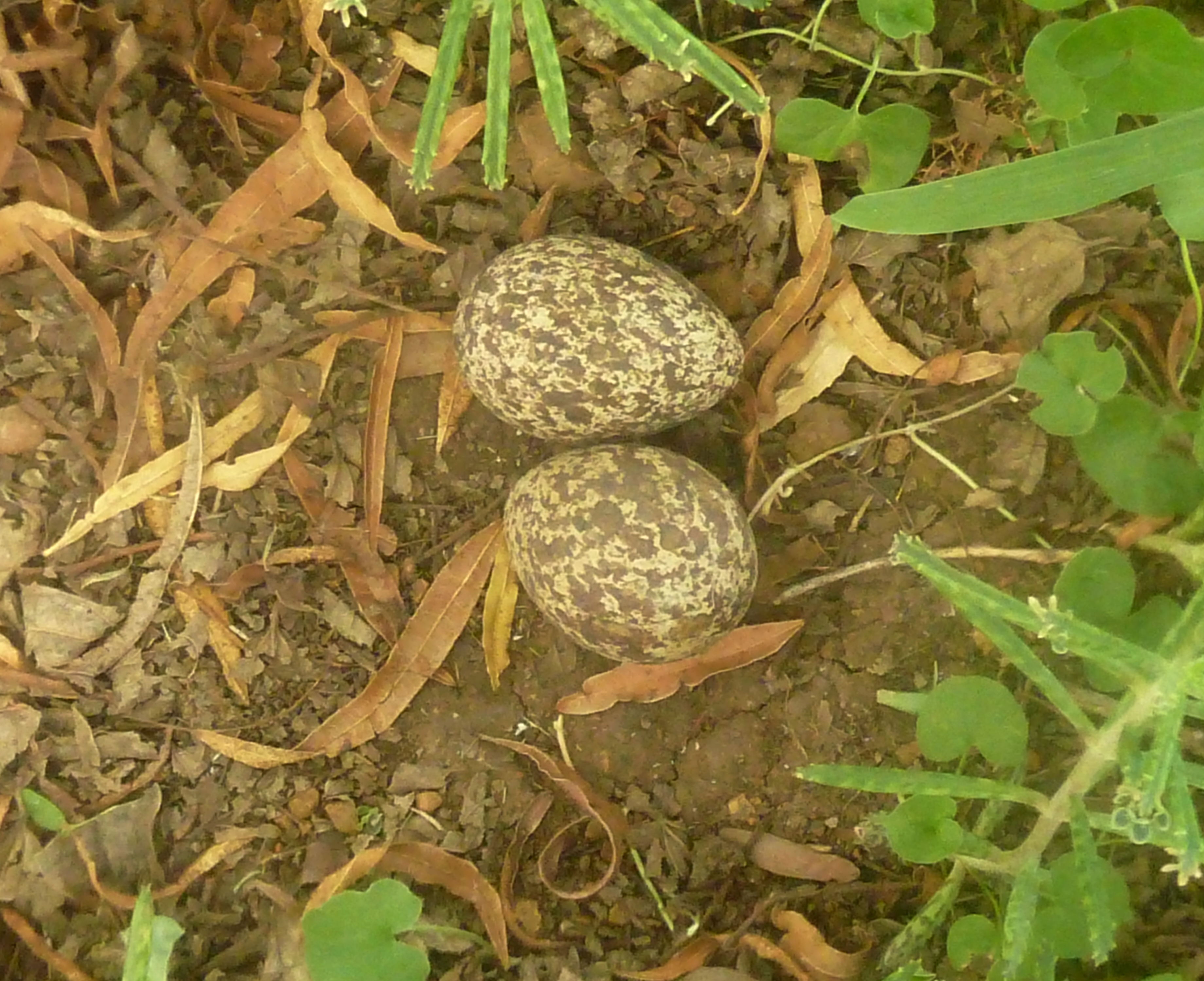 Clutch of Spotted thick-knees in scrape, in suburban Pretoria, South Africa